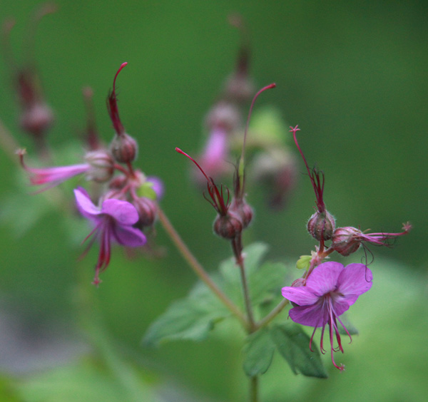 Geranium macrorrhizum 'Bevan’s Variety'. Russia. Vladimir Oblast